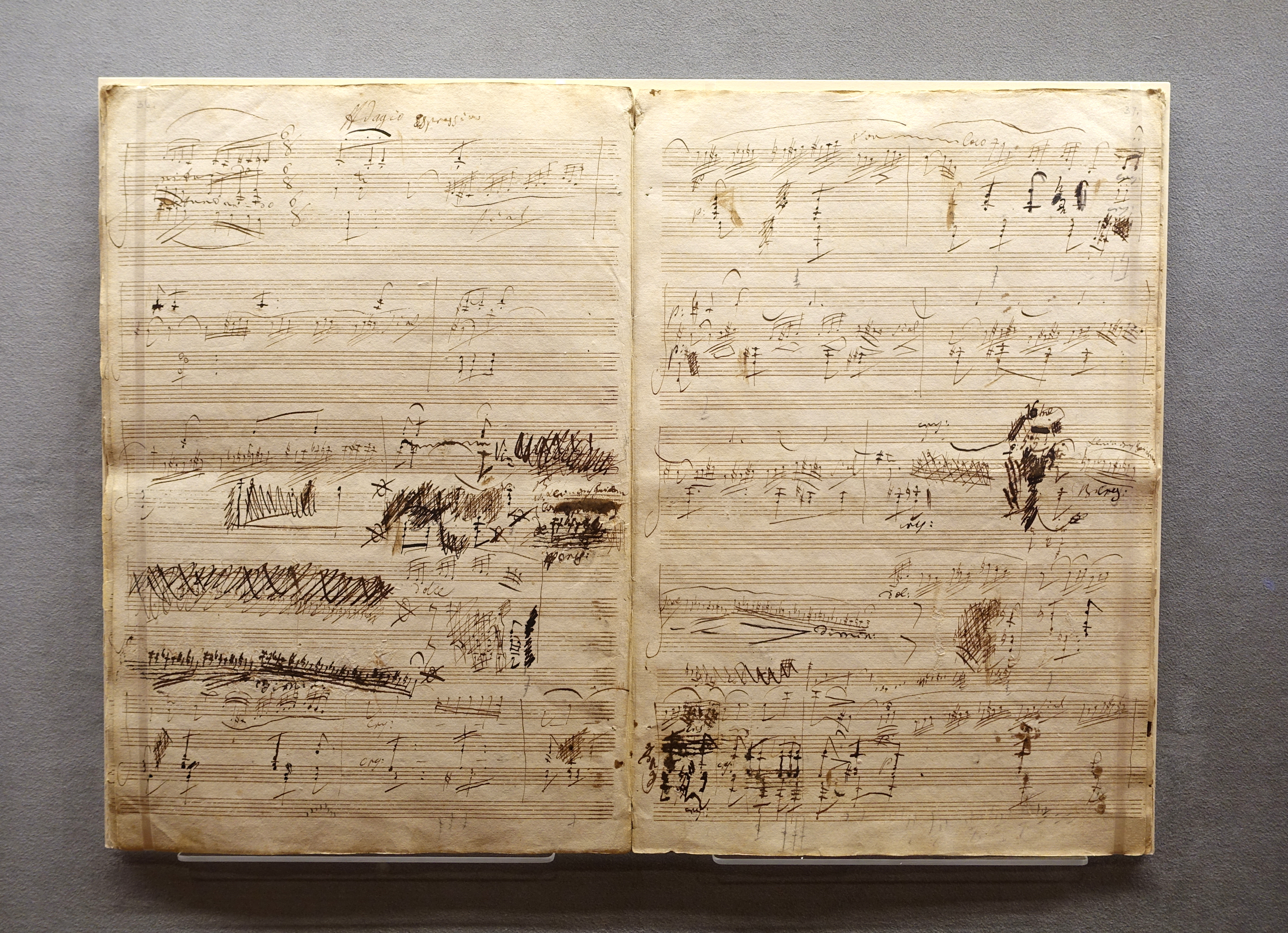 Exhibit in the Morgan Library & Museum - New York City, New York, USA.